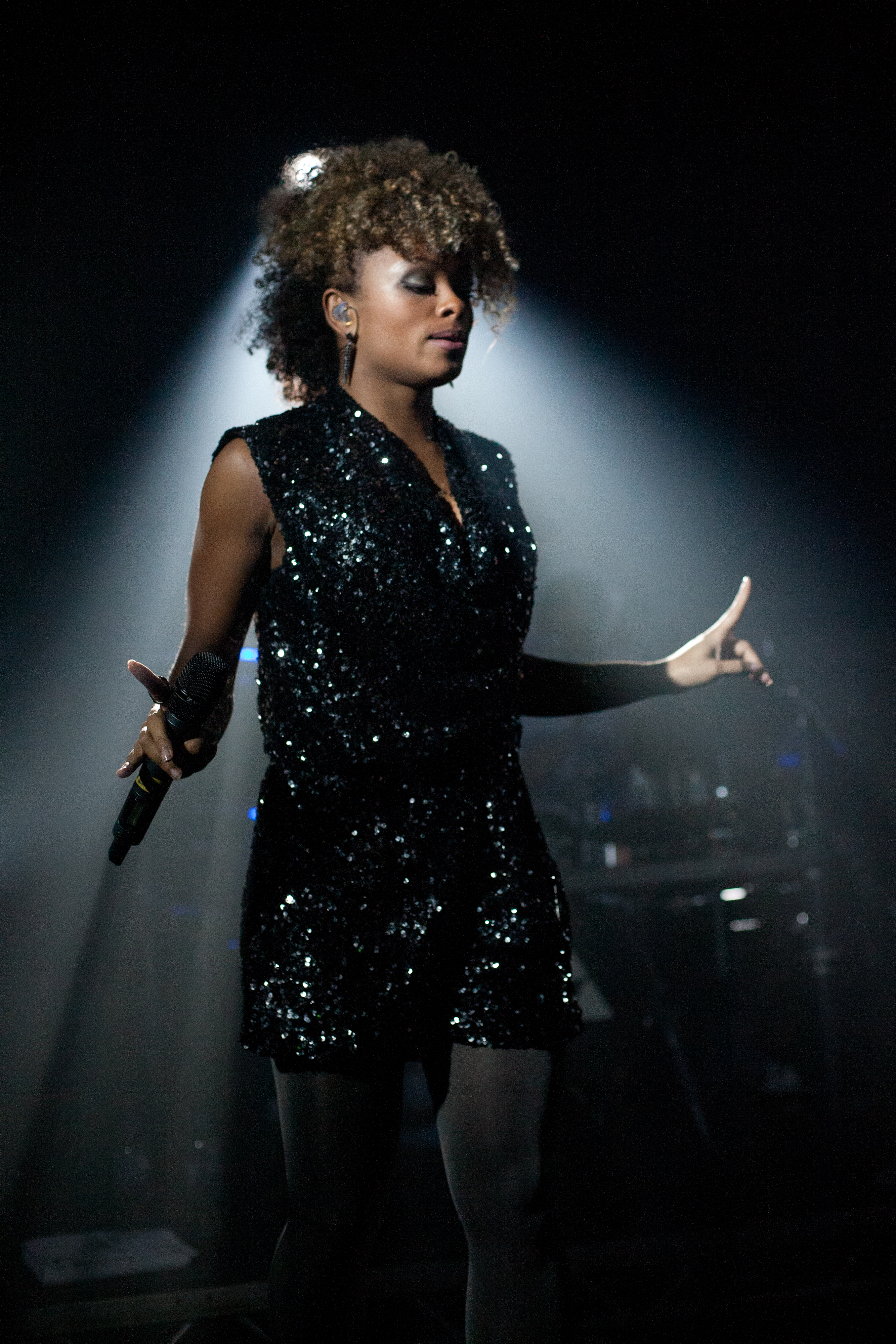 Fleur performing with dubstep/drum n bass producer DJ Fresh at the Arches as part of his first ever live show on Wed 23rd Nov. Images: Dasha Miller. Fleur East performing live with DJ Fresh at The Arches, Glasgow on 23rd November 2011.